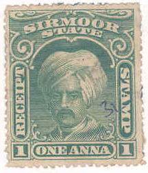 Stamp from my collection. Indian Silk State (Sirmoor) 1800s